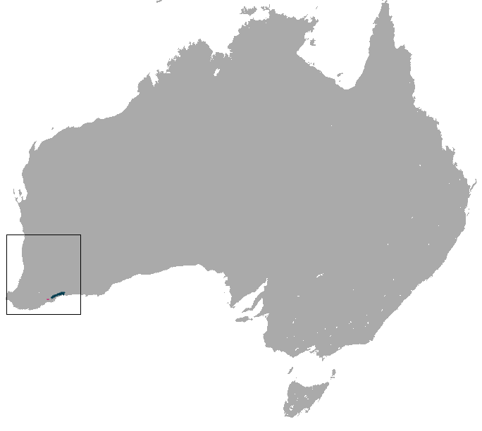 Dibbler (Parantechinus apicalis) range (blue — native, pink — reintroduced)